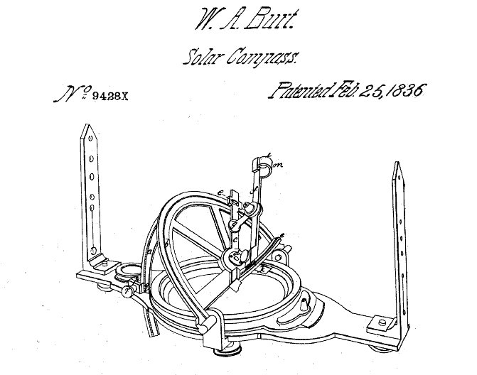 Willian Austin Burt solar compass patent 1836